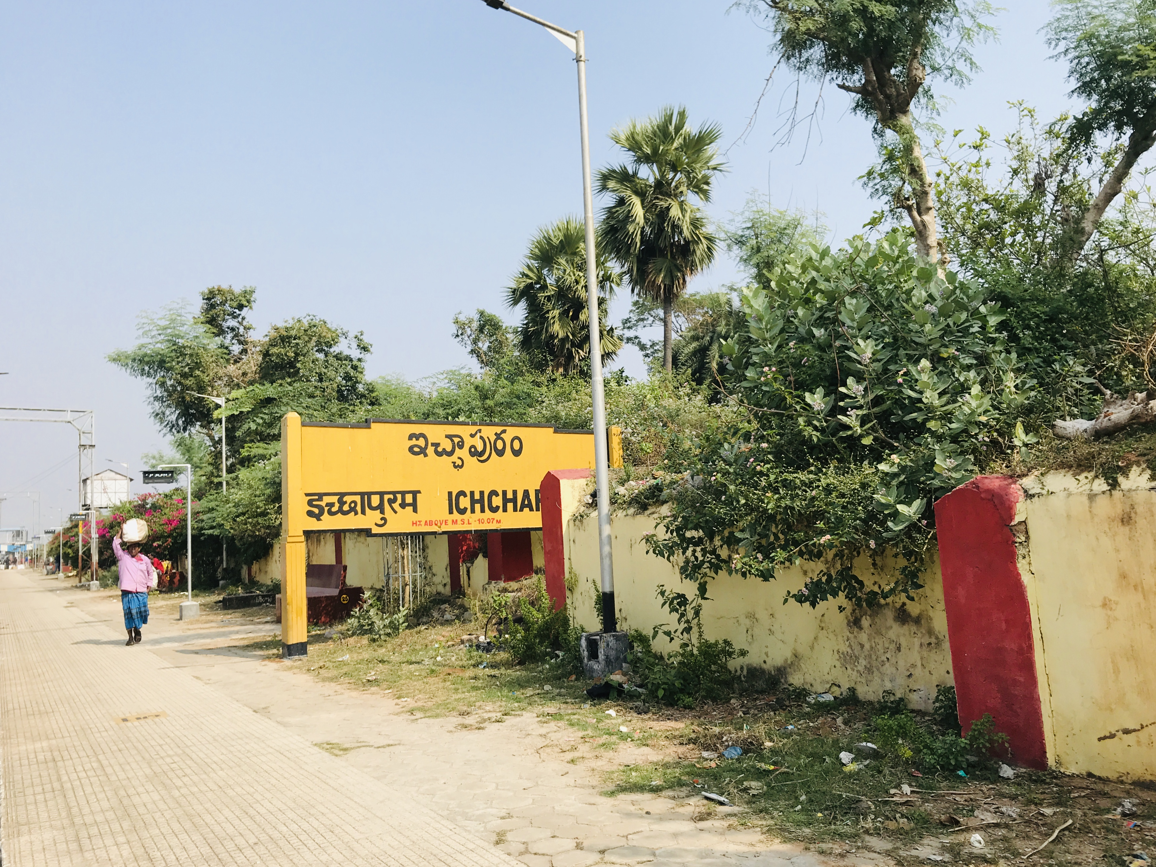 Ichchapuram railway station name board